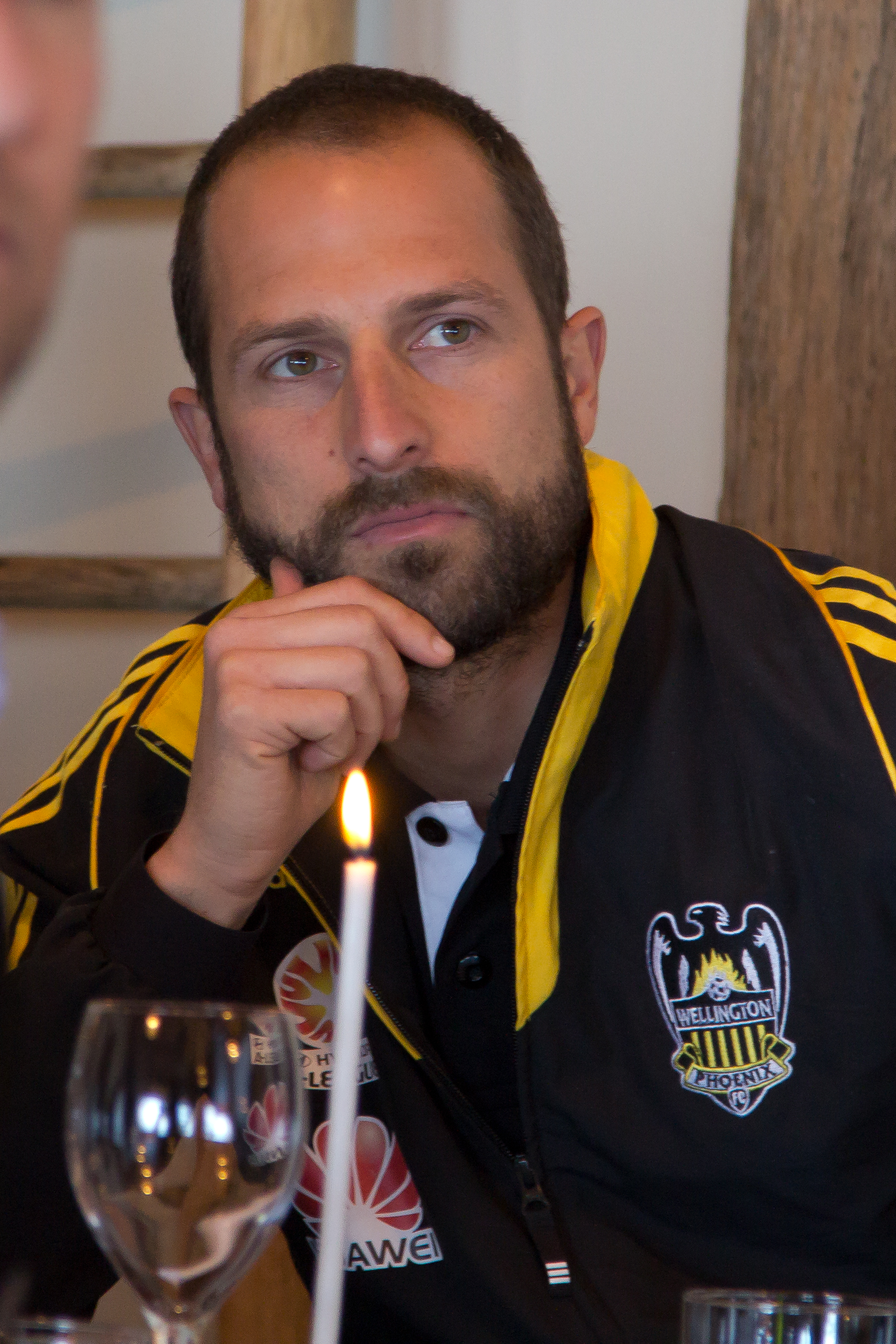 Andrew Durante Wellington Phoenix lunch